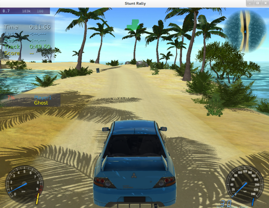 In-game screenshot of Stunt Rally 1.9.